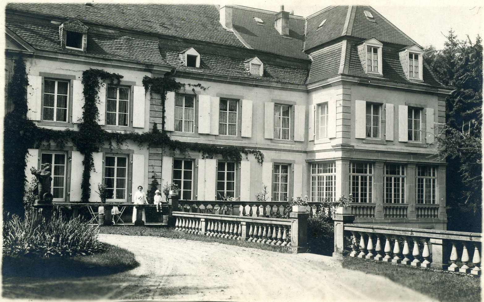 Castle Helleringen about 1916/17